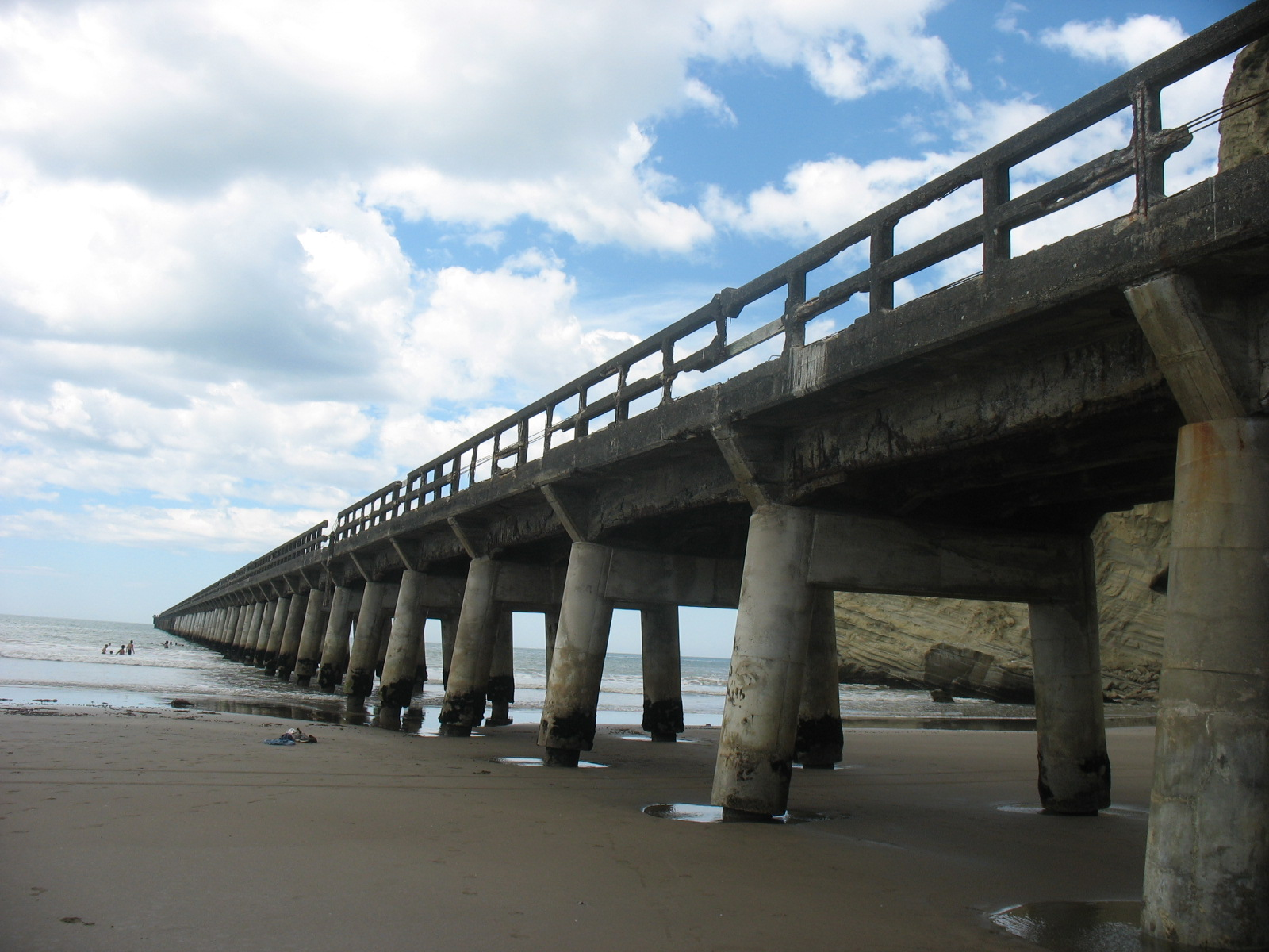 Tolaga Bay Wharf.